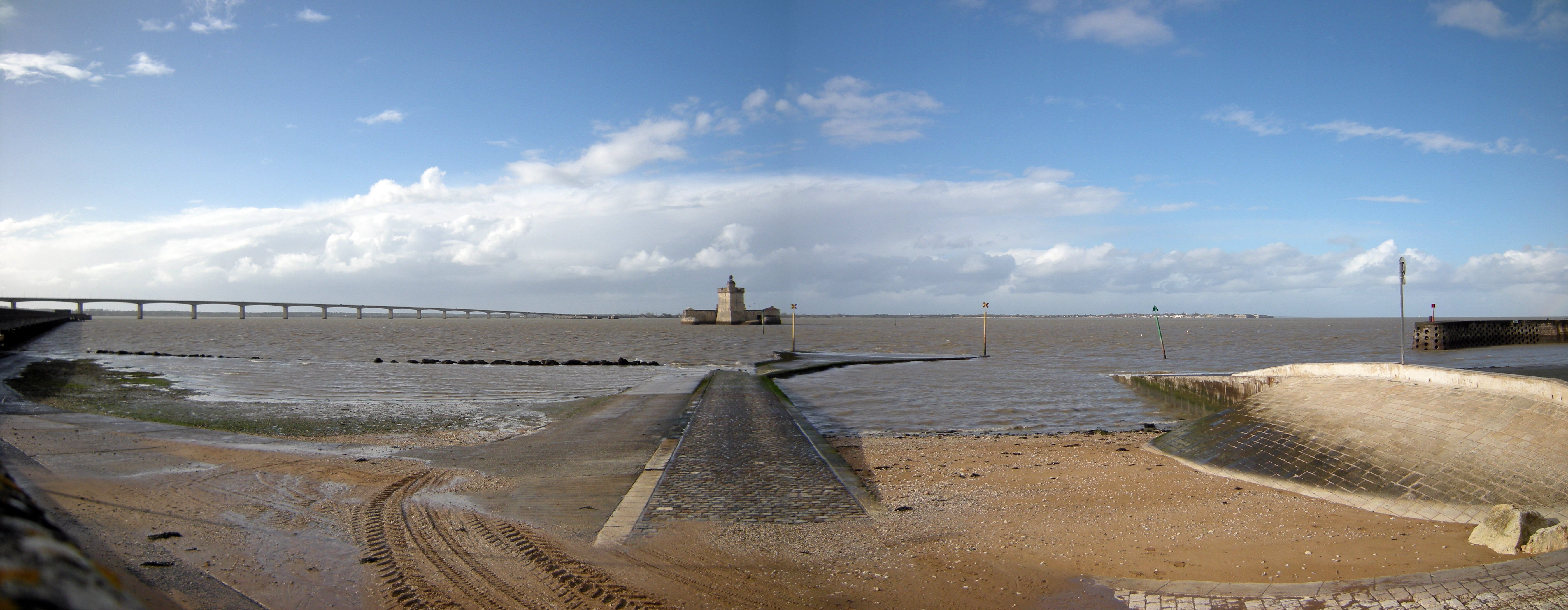 Fort Louvois in Charente-Maritime, France. In the background, the Island of Oléron.